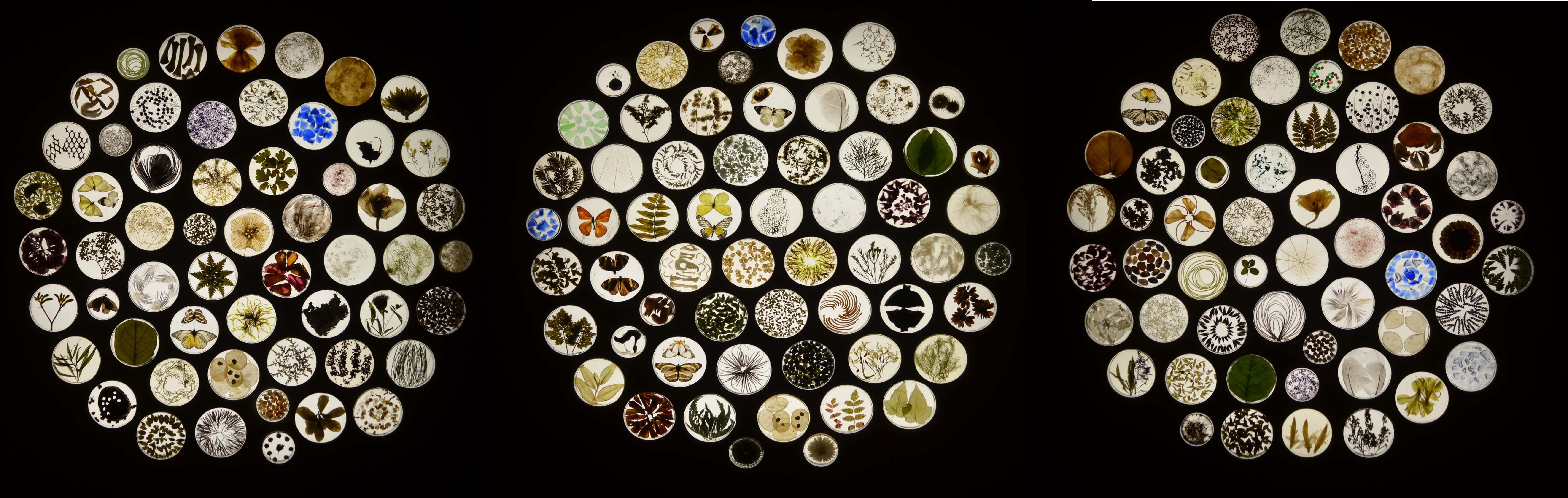 Exhibited at the Room Provincial art gallery, 'Specimens' from MIRIAD expeditions, preserved in resin and back lit